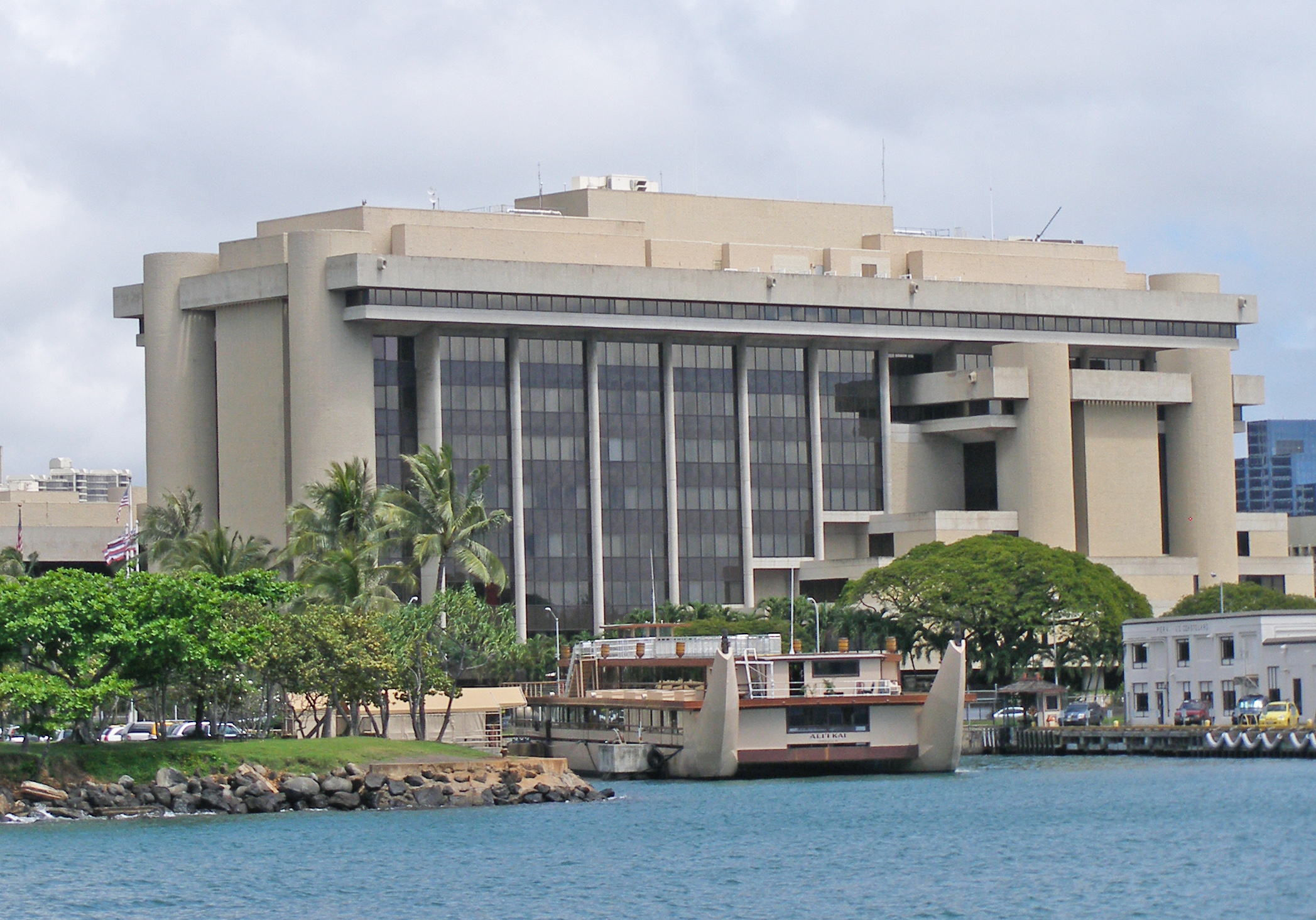 The Prince Kuhio Federal Building, located in Honolulu, Hawaii. Image taken with an Olympus Camedia C-7000 Zoom digital camera.